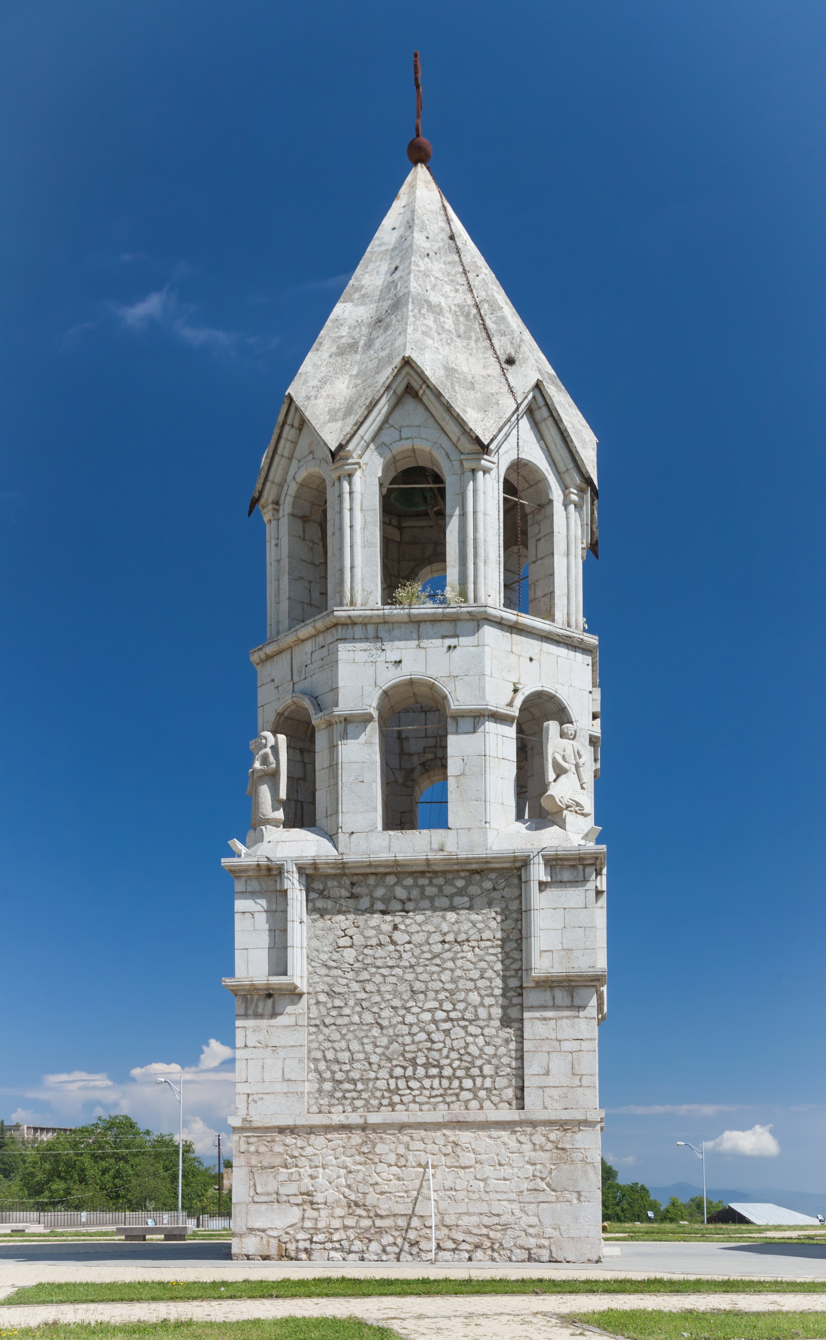 Belfry. Cathedral of Christ the Holy Savior. Shushi/Shusha, Nagorno-Karabakh.